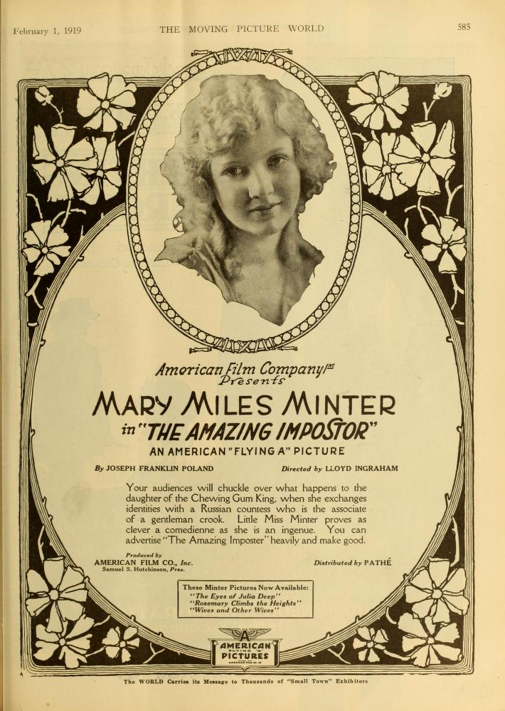 Advertisement, Moving Picture World